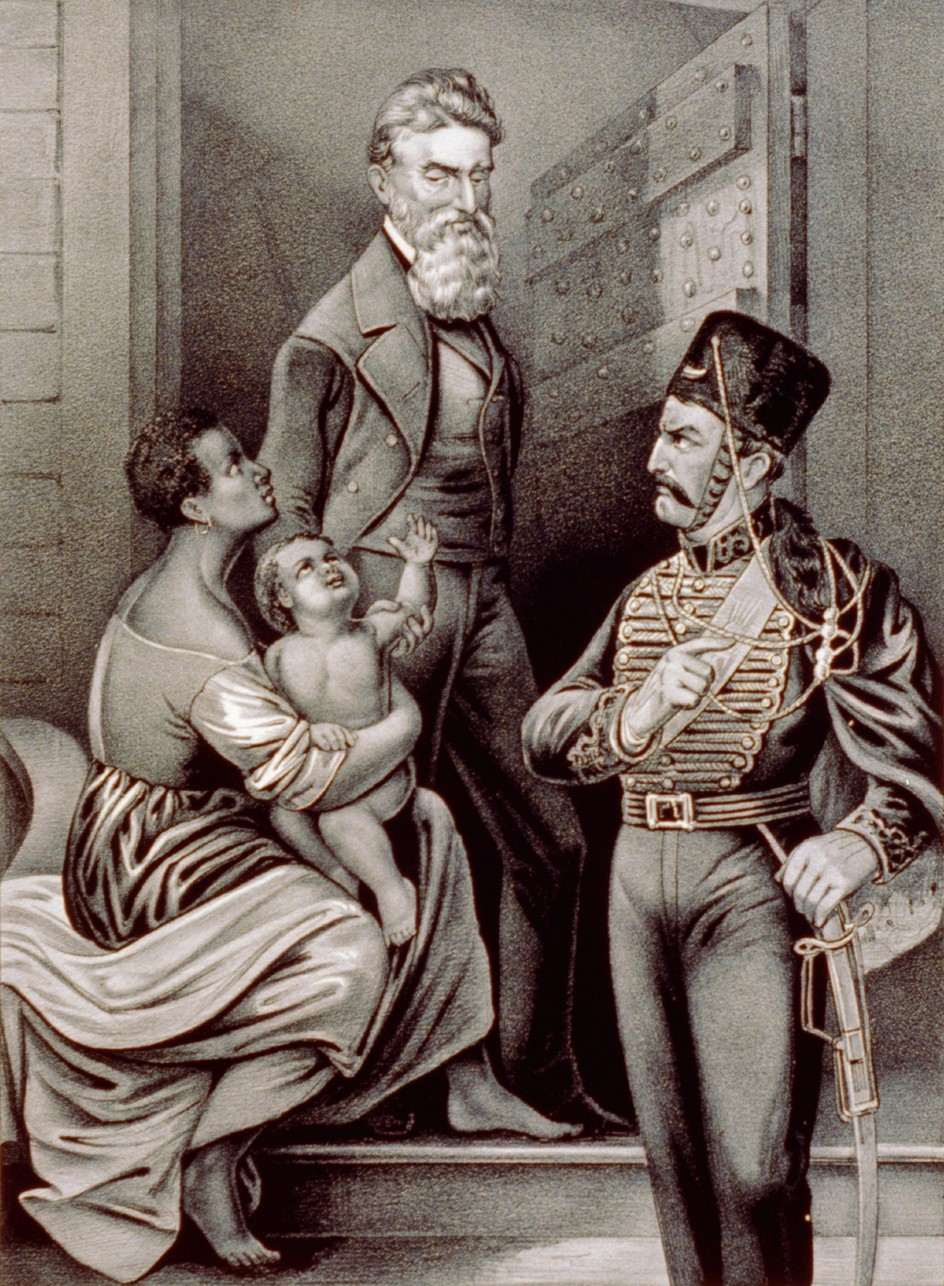 Idealized portrait of John Brown being adored by a slave mother and child as he walks to his execution on December 2, 1859